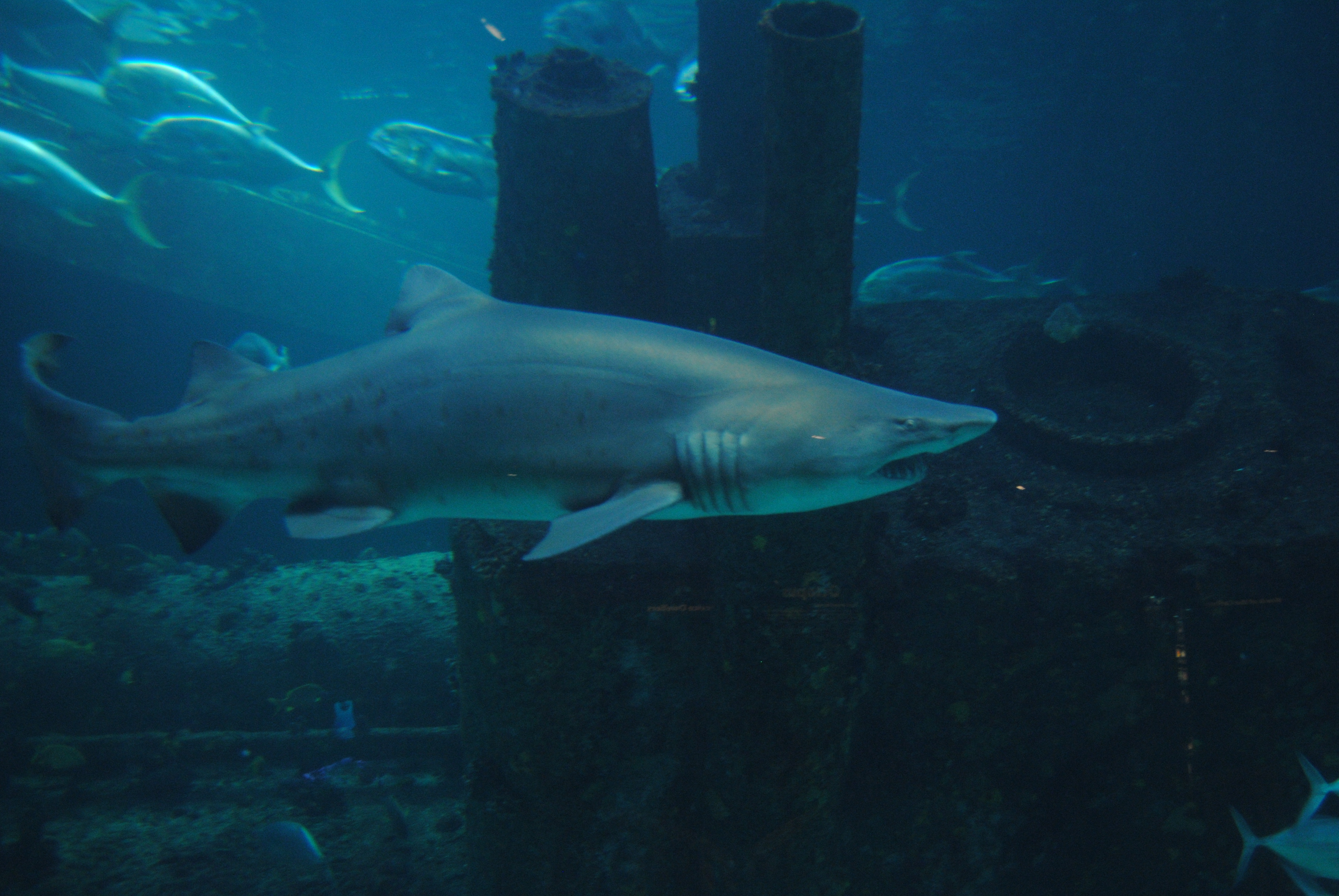 This image depicts a sand tiger shark